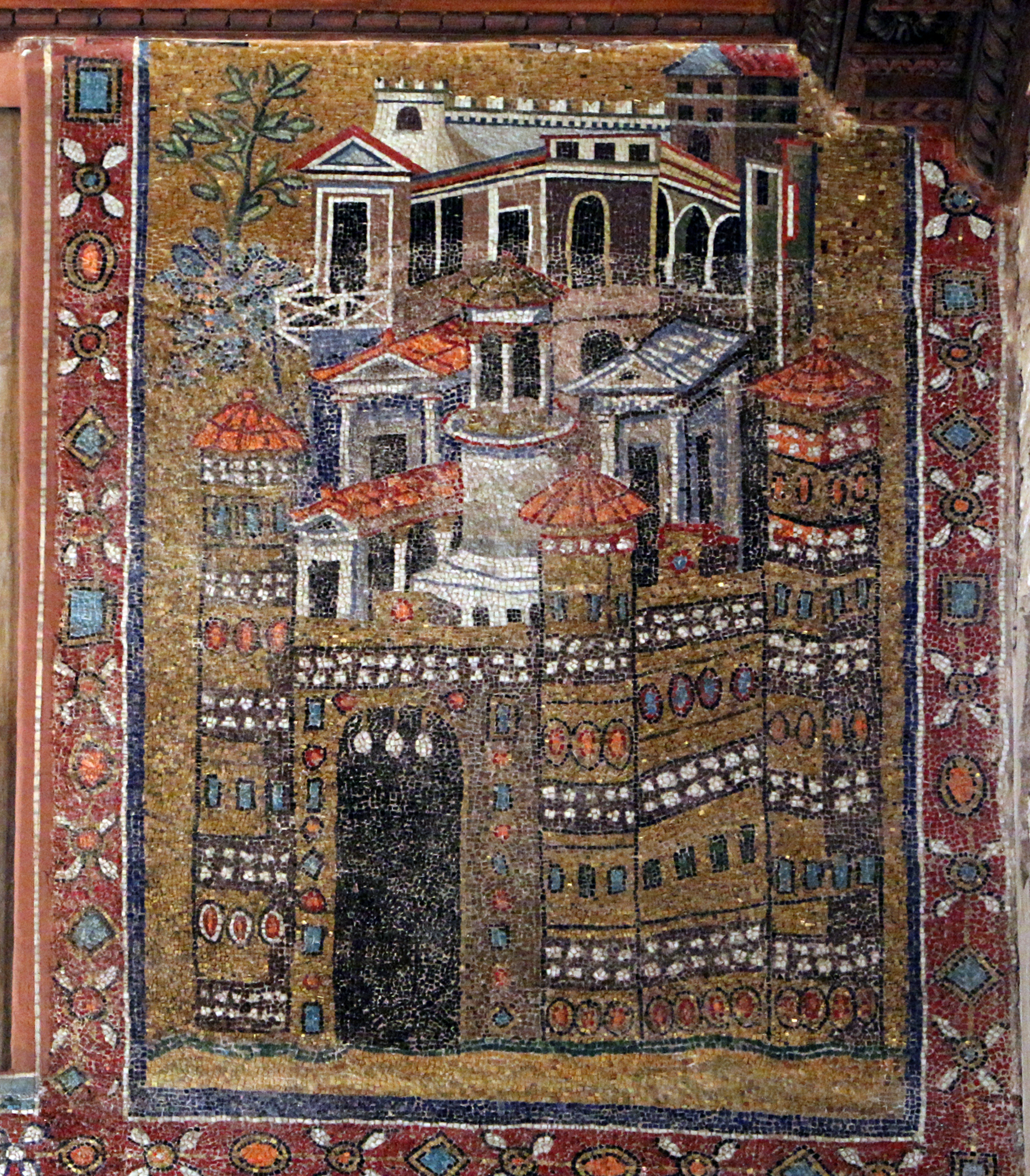 Lateran Baptistry